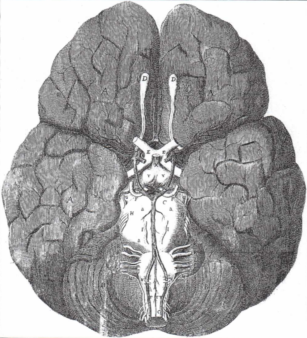 Engraving from "Cerebri Anatome", London, 1664.Rare Books, Wellcome Library, London.